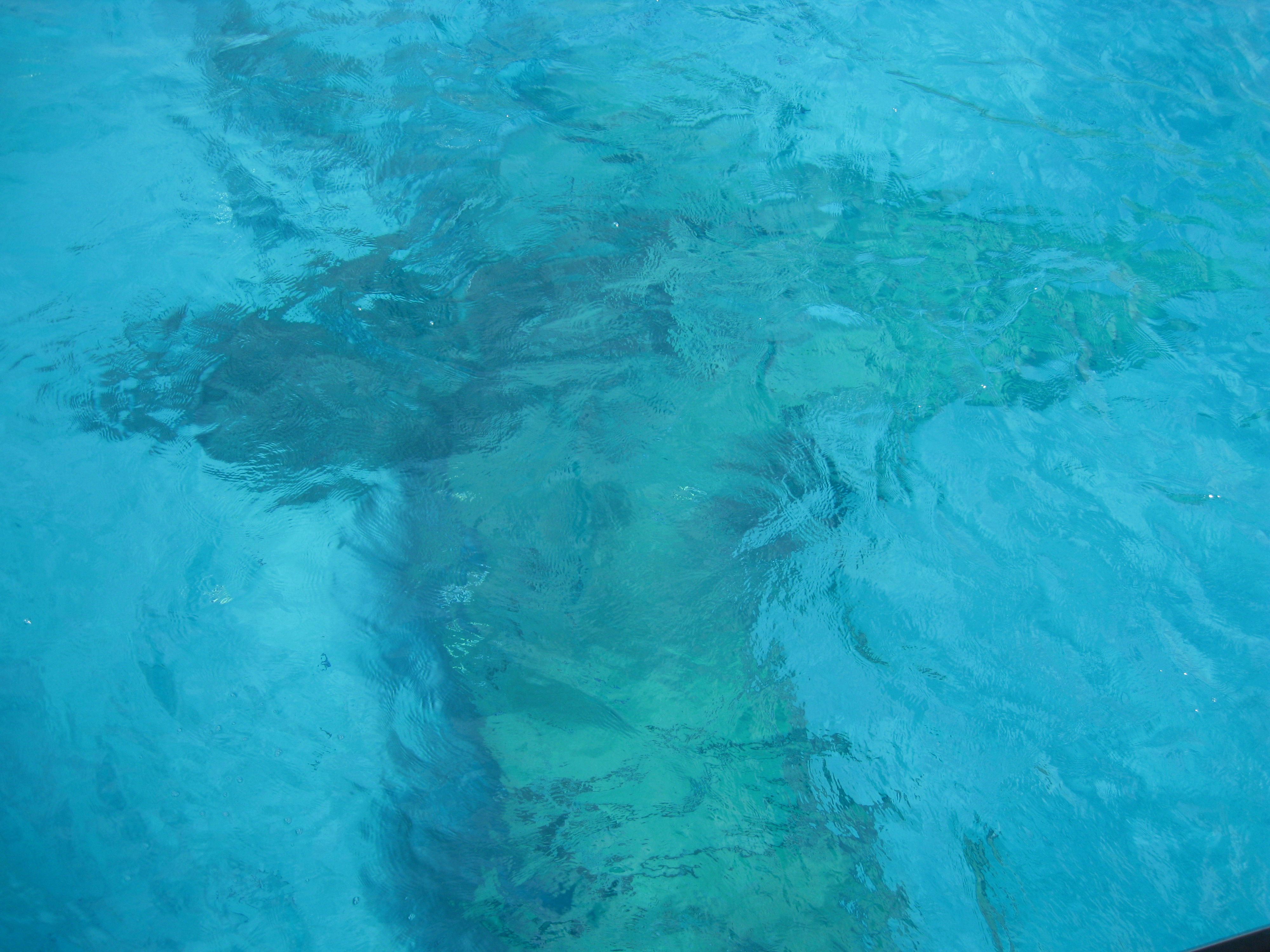 Zero fighter of WW II sunk under the sea near Mañagaha